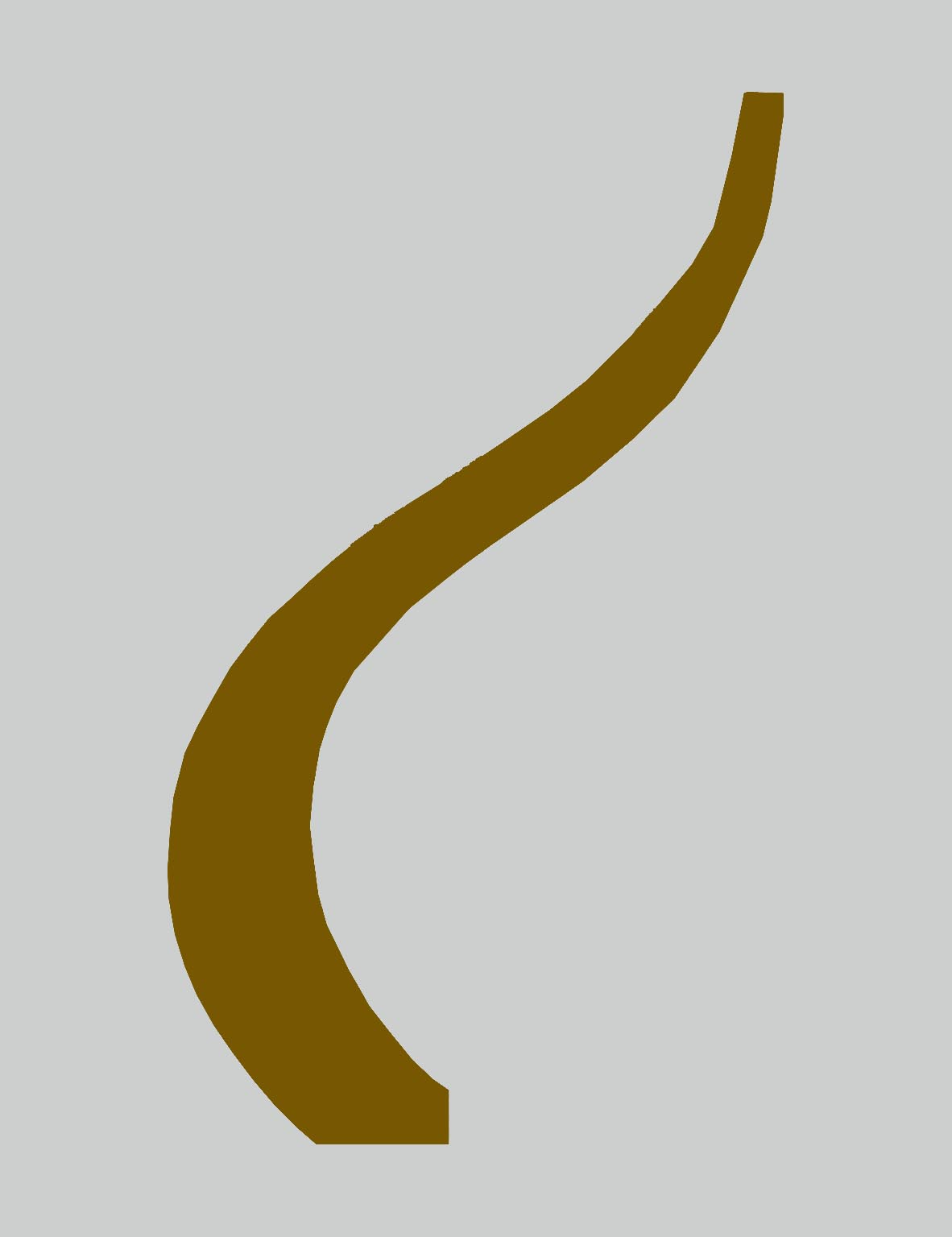 Juravets - element of cupola construction